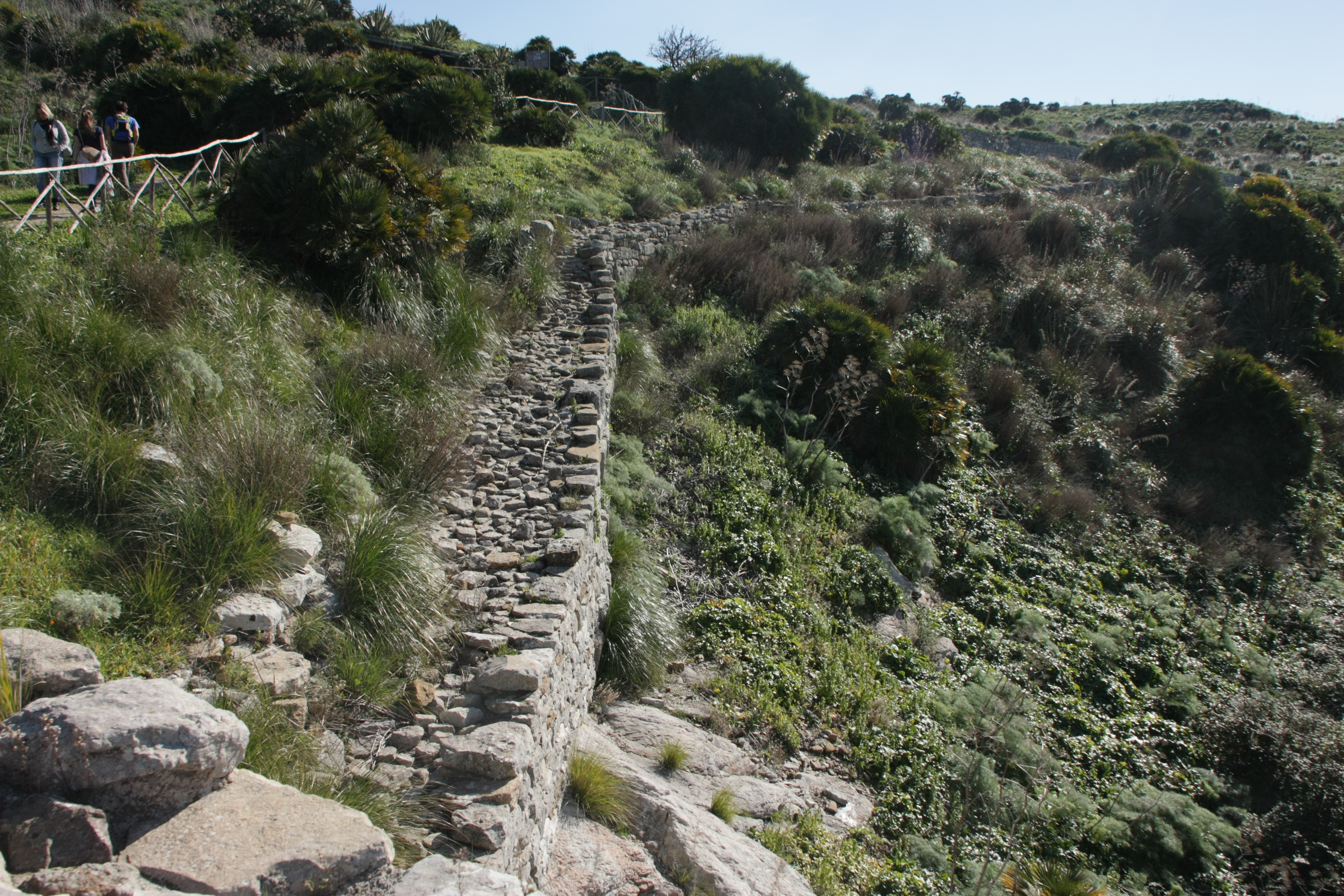 Segesta fortifications